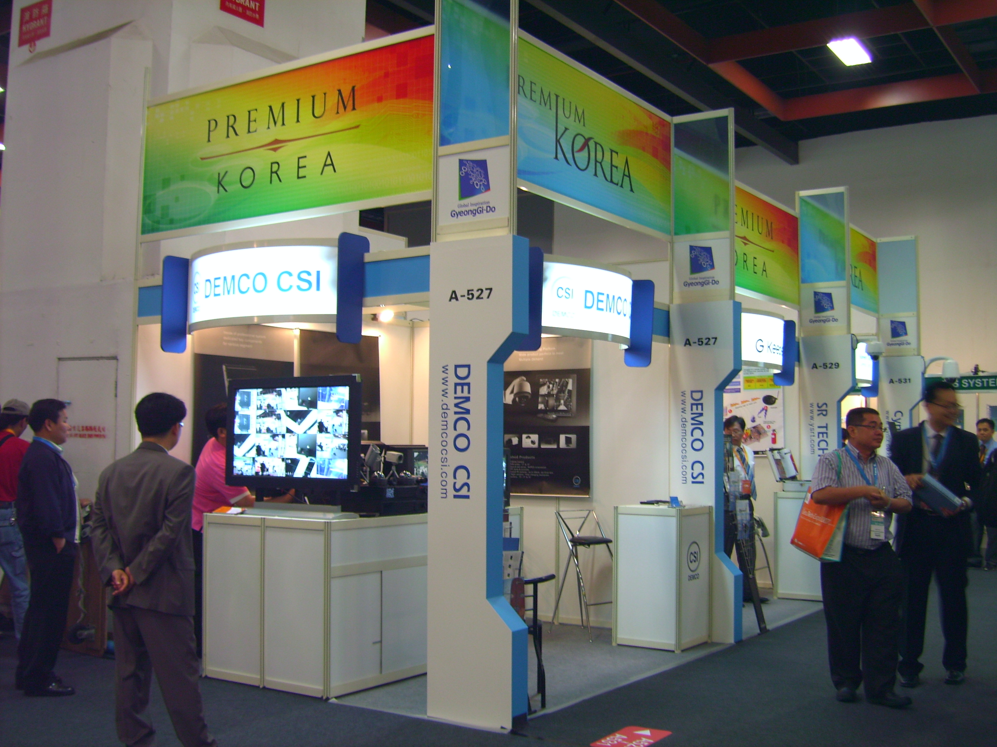 2007 SecuTech Expo: Korea Pavilion.